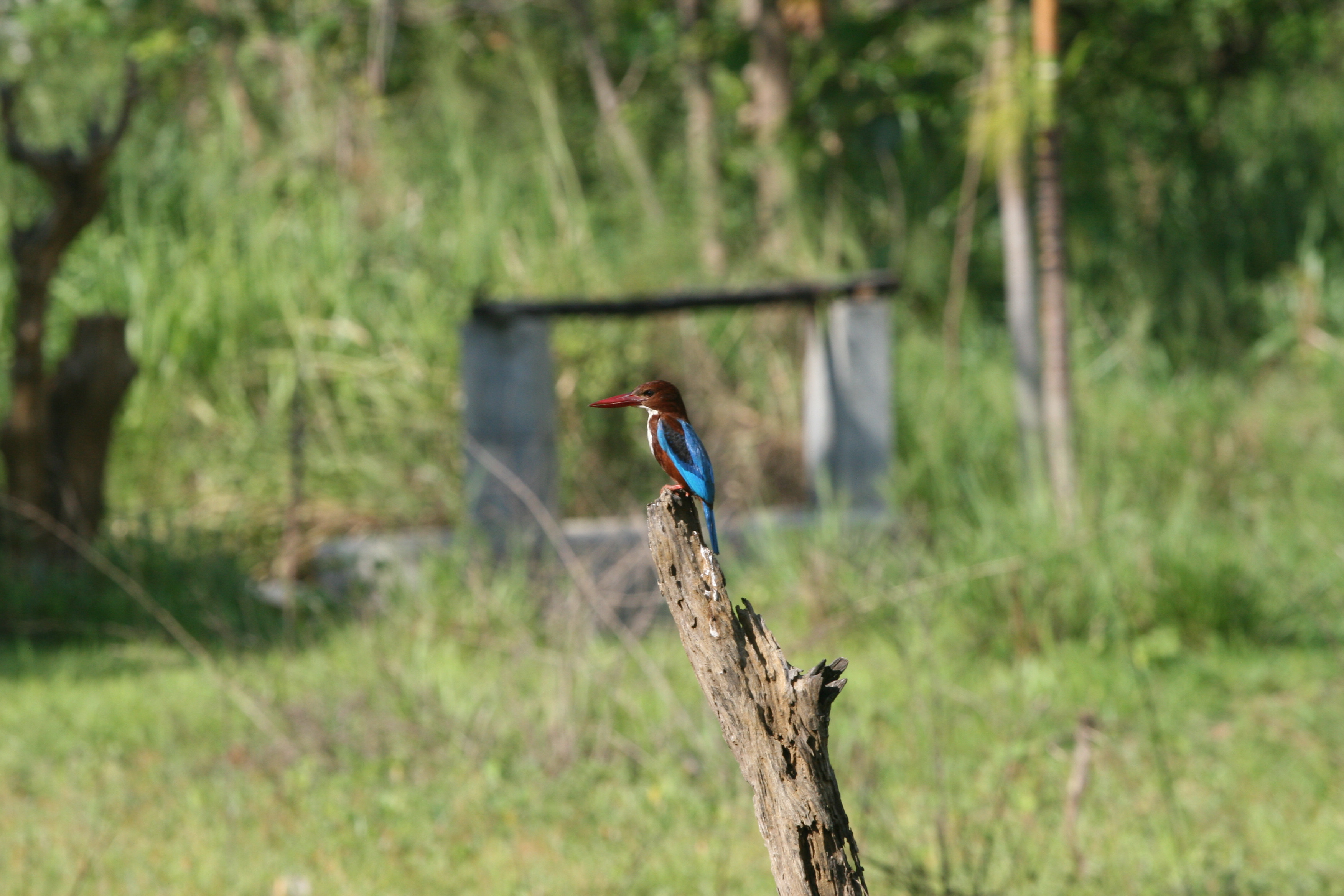 Halcyon smyrnensis